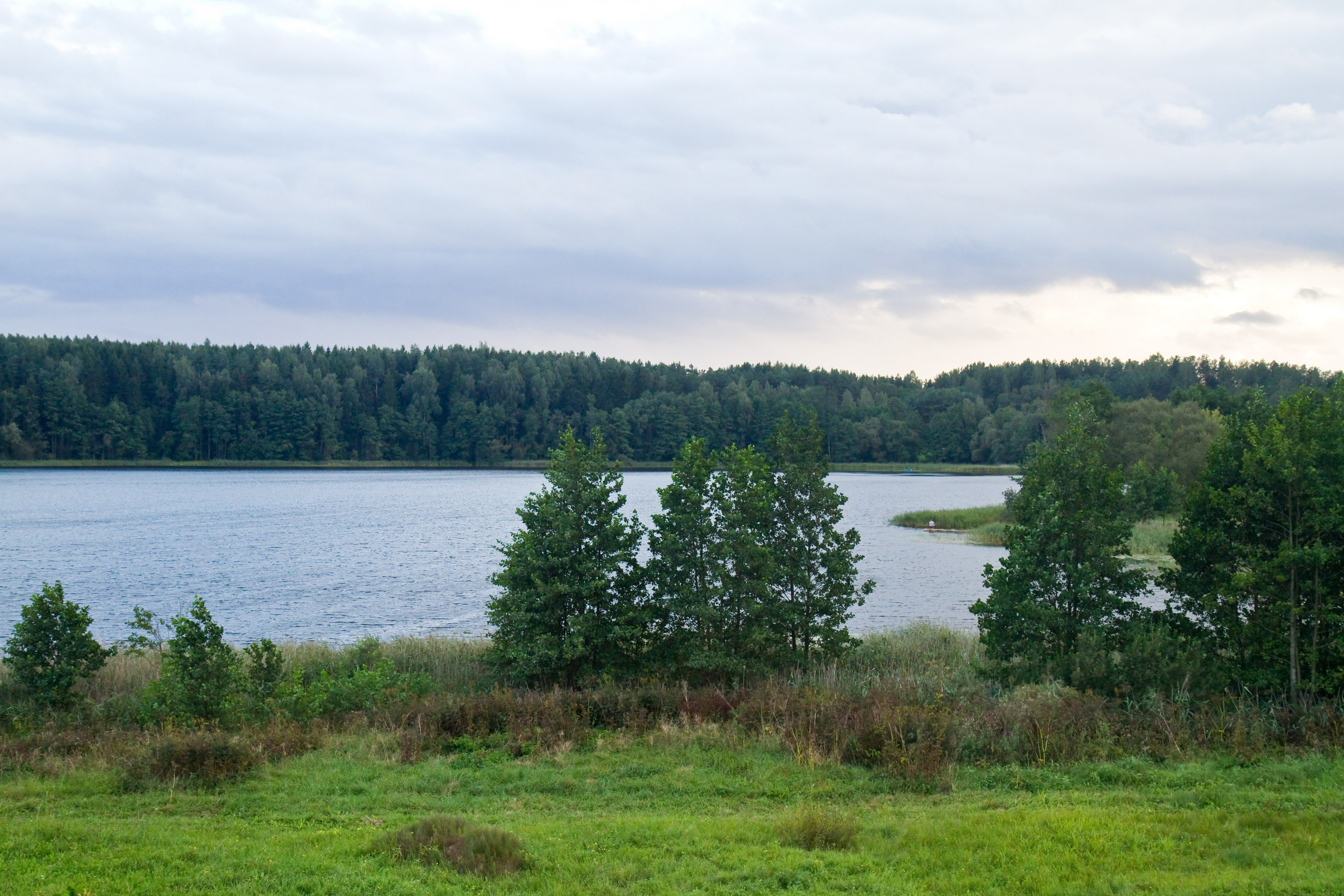 Ilmienak Lake. Brasłau district, Viciebsk province, Belarus.